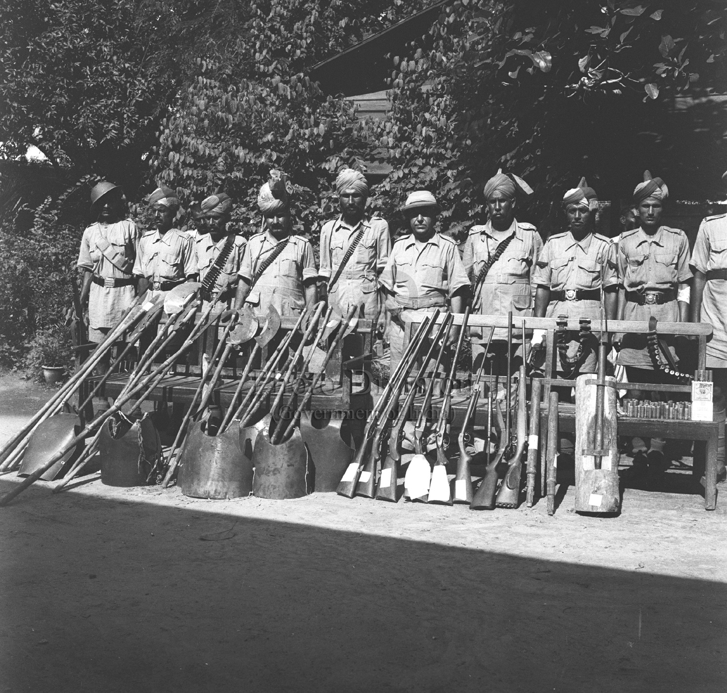 Guns, armours, axes and spears captured from the muslims in Paharganj by the military and police after a regular fight.